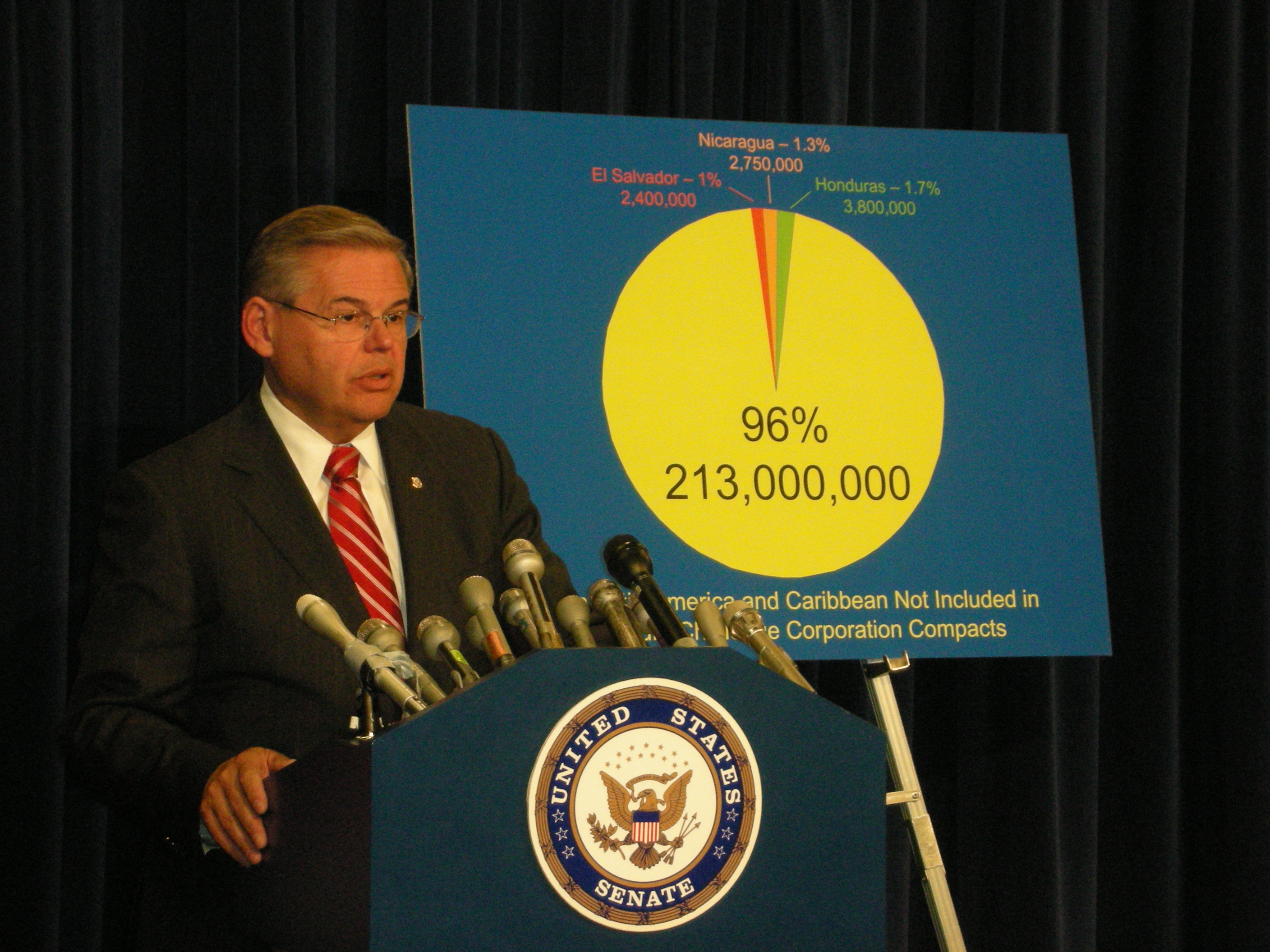 Senator Bob Menendez holding a press conference on Latin America.